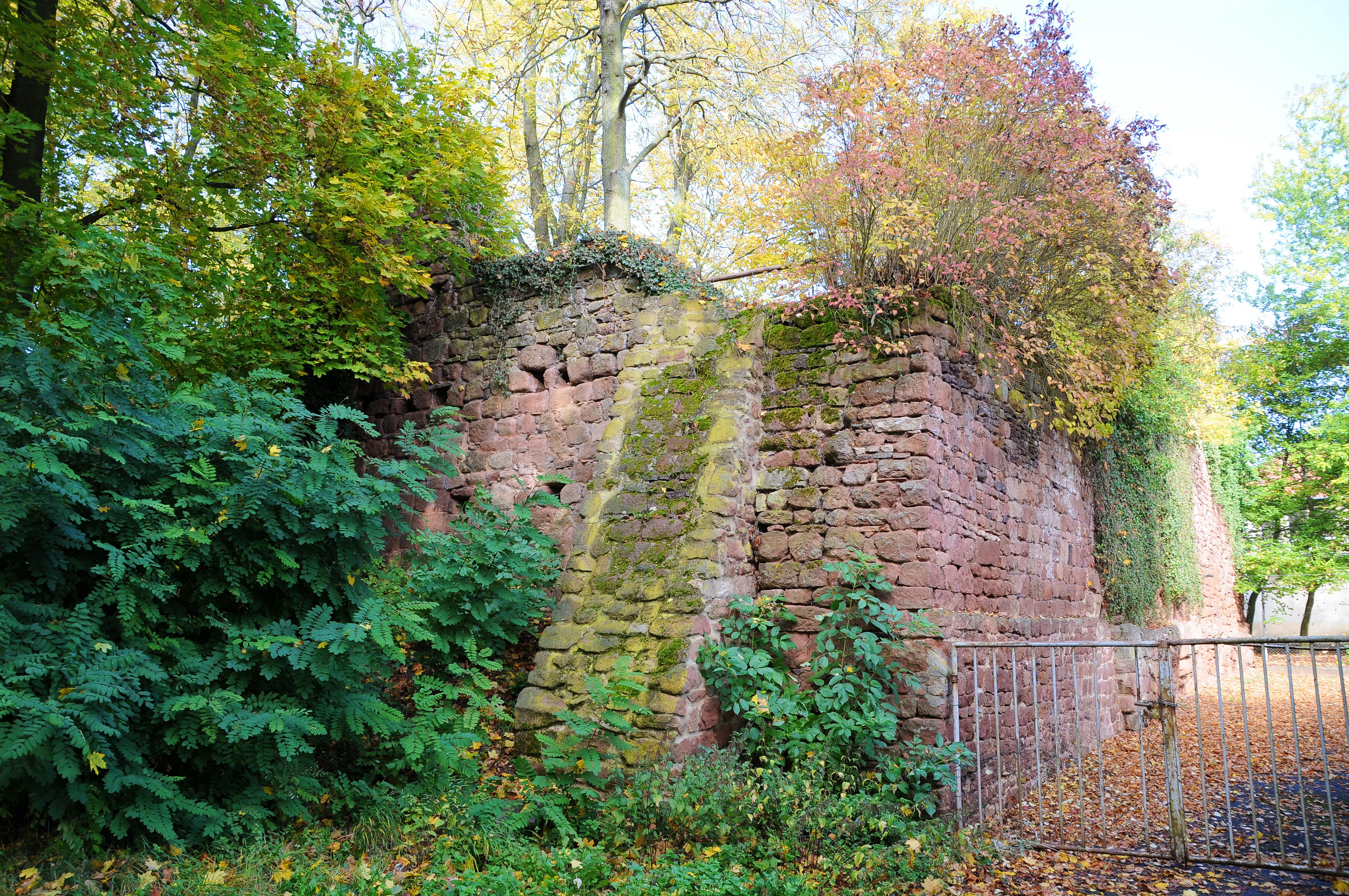 Remains of Castle Stauf.